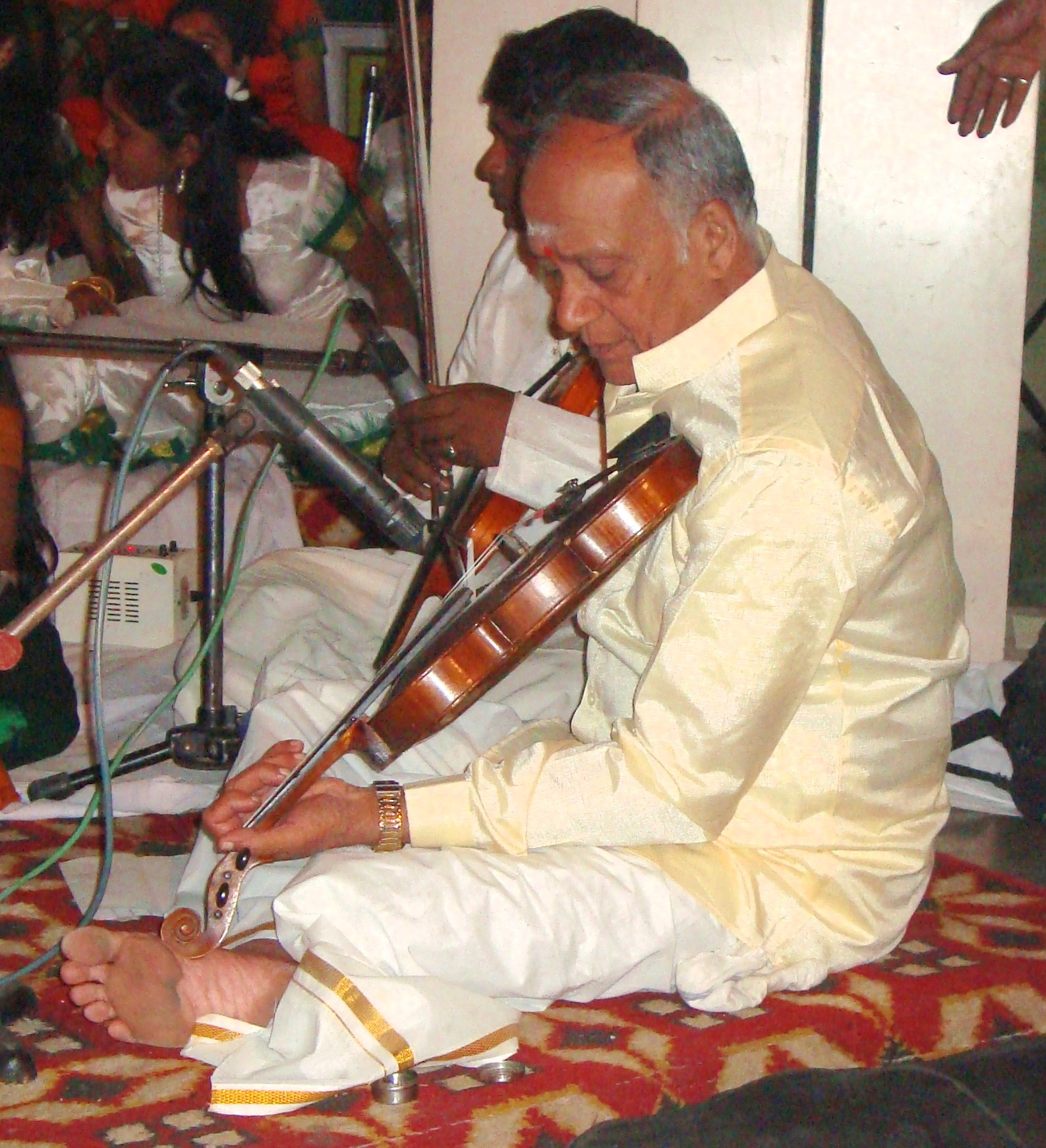 Playing Violin for Karnatic music concert